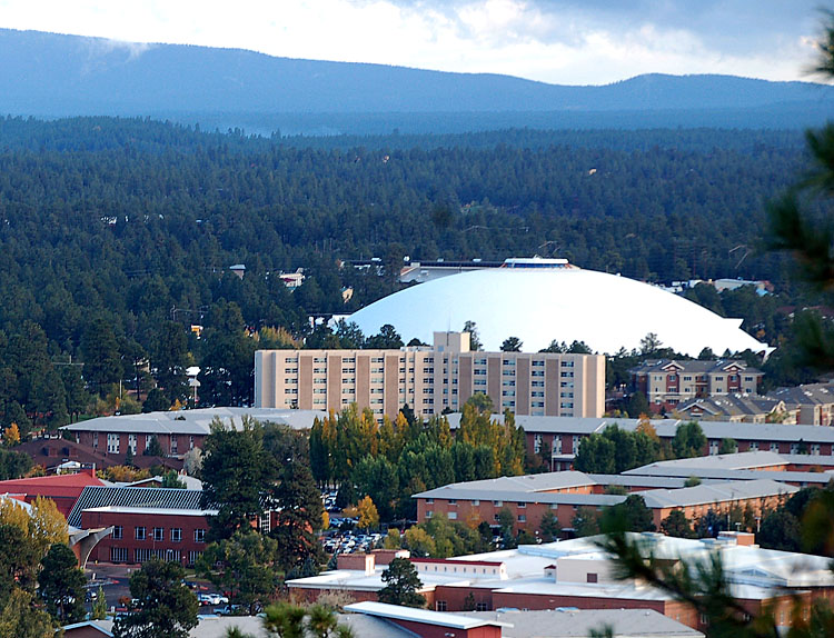 The Skydome, on the campus of Northern Arizona University in Flagstaff, Arizona. Photo by: Derek Cashman (October 16, en:2006).